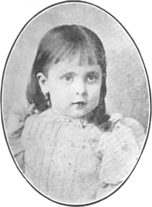 A photograph of baby Lucille Hart (later Alan Hart) from 1911 college yearbook.